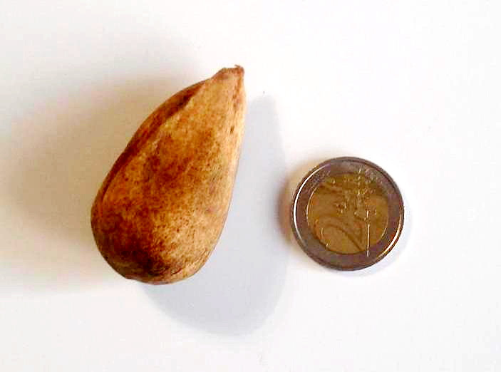 Seed of Araucaria bidwillii compared to a 2 euro coin